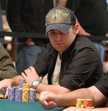 JP Kelly after winning at the 2009 World Series of Poker.